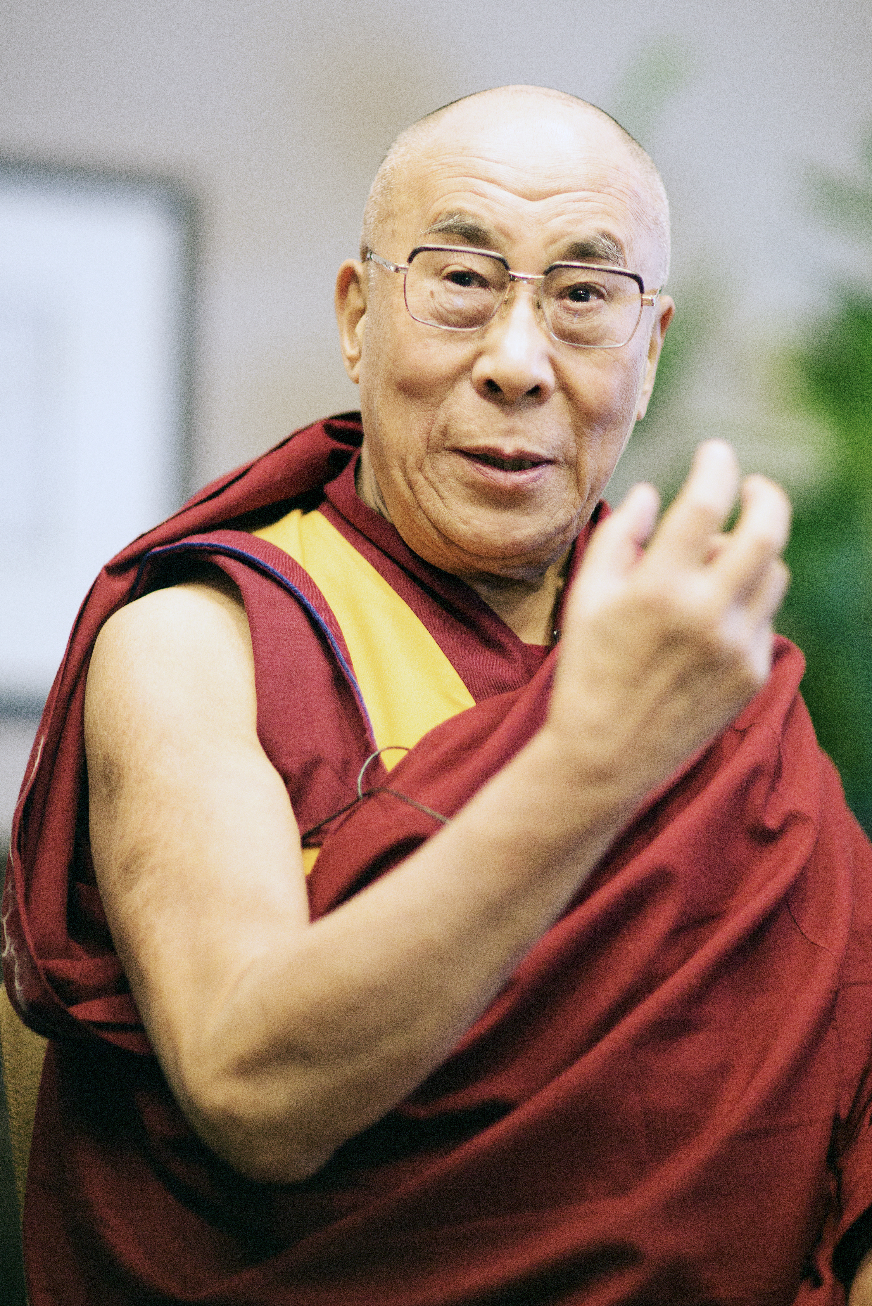 Dalai Lama in 2012 at MIT by Photographer Christopher Michel